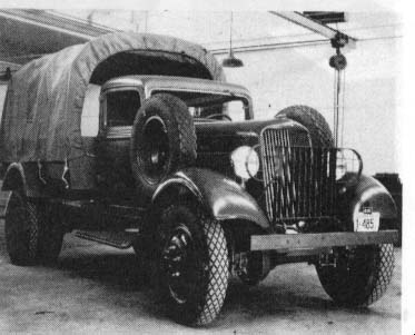 1934 Dodge K39-X4 (USA) - experimental 1½-ton, 4-wheel drive personnel and cargo truck, built for the U.S.Army.